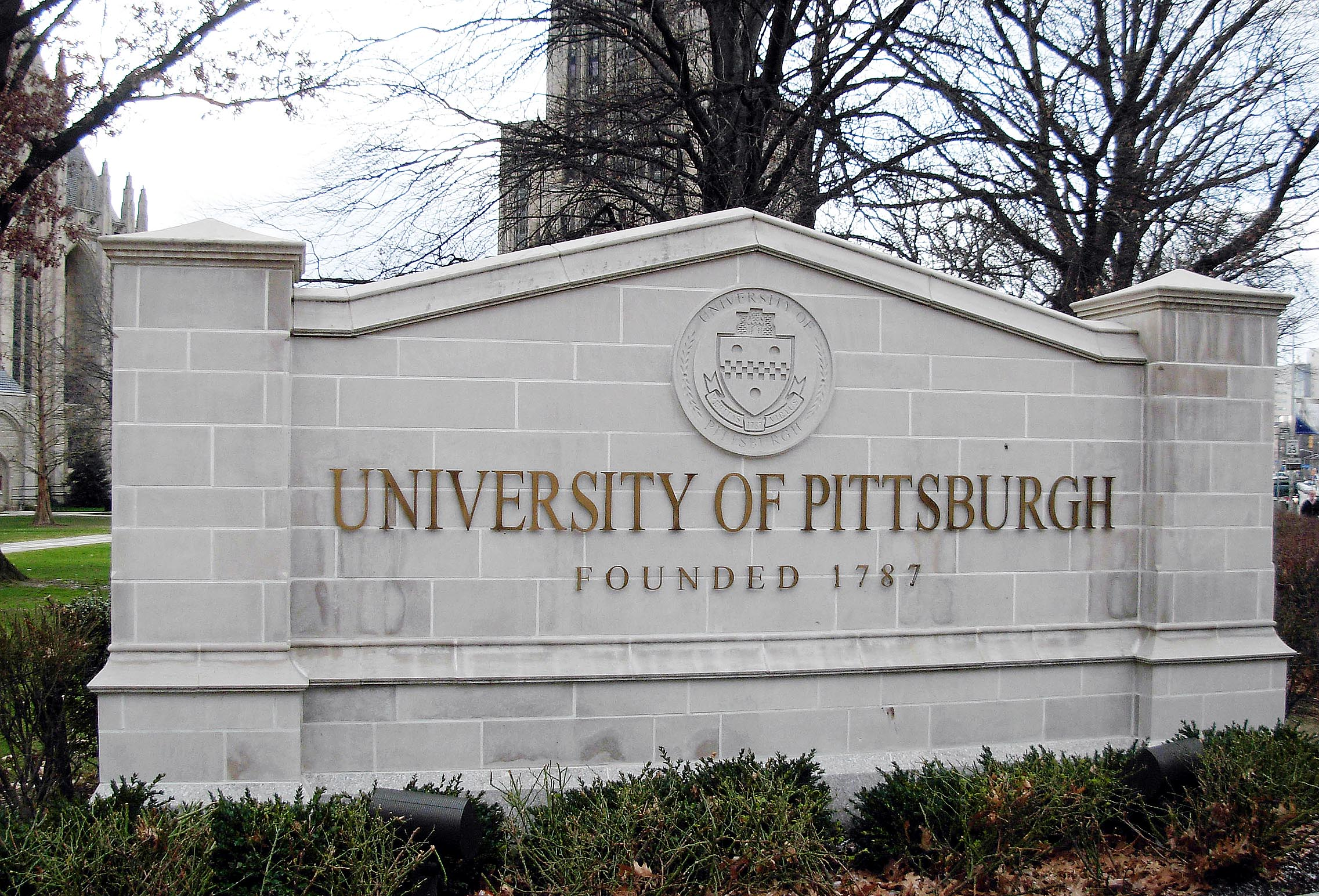 University of Pittsburgh. Cathedral of Learning in the background (center, Heinz Memorial Chapel to the left). This photo is edited from the original by Piotrus. Original photo available here: Image:University of Pittsburgh tablet.jpg